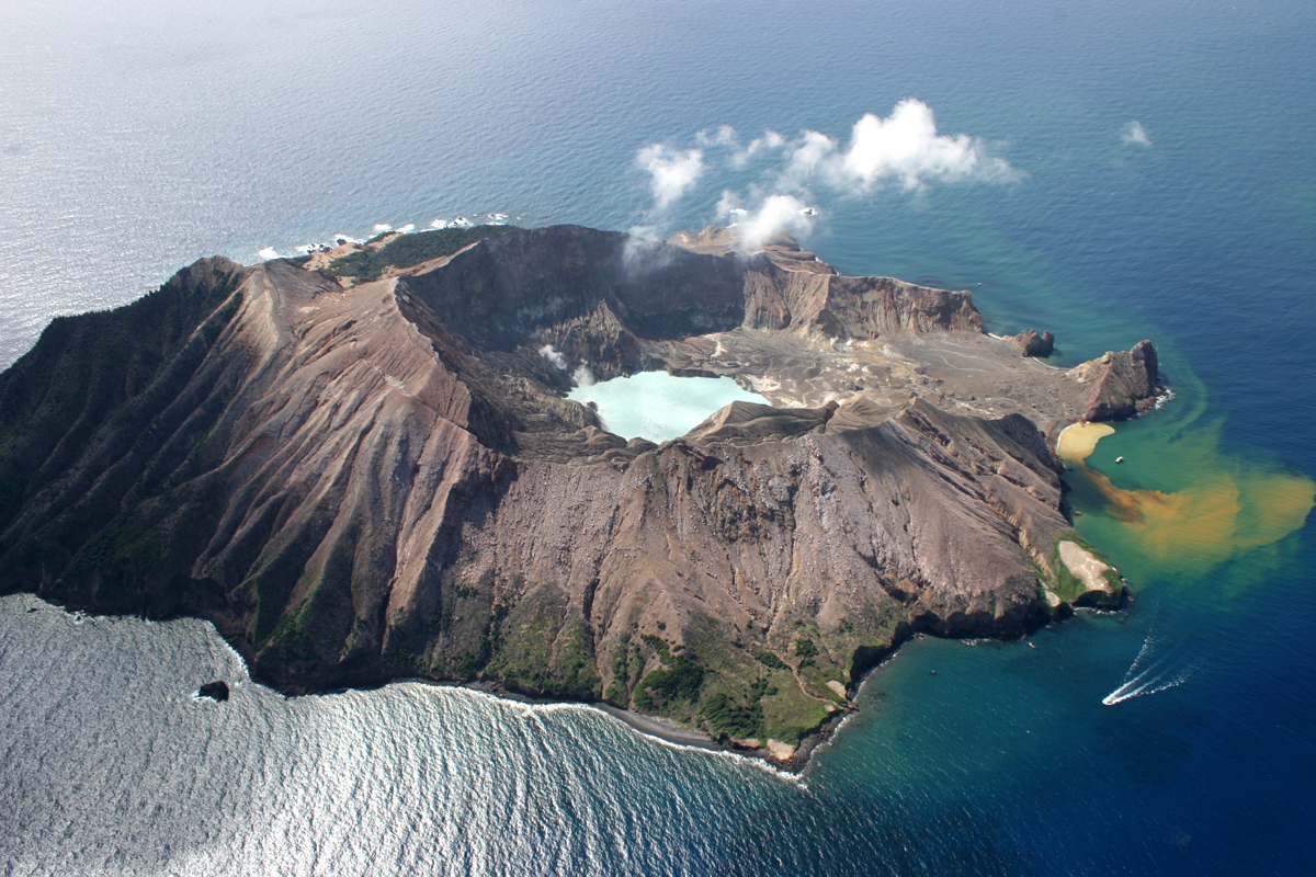 White Island, New Zealand, from the air